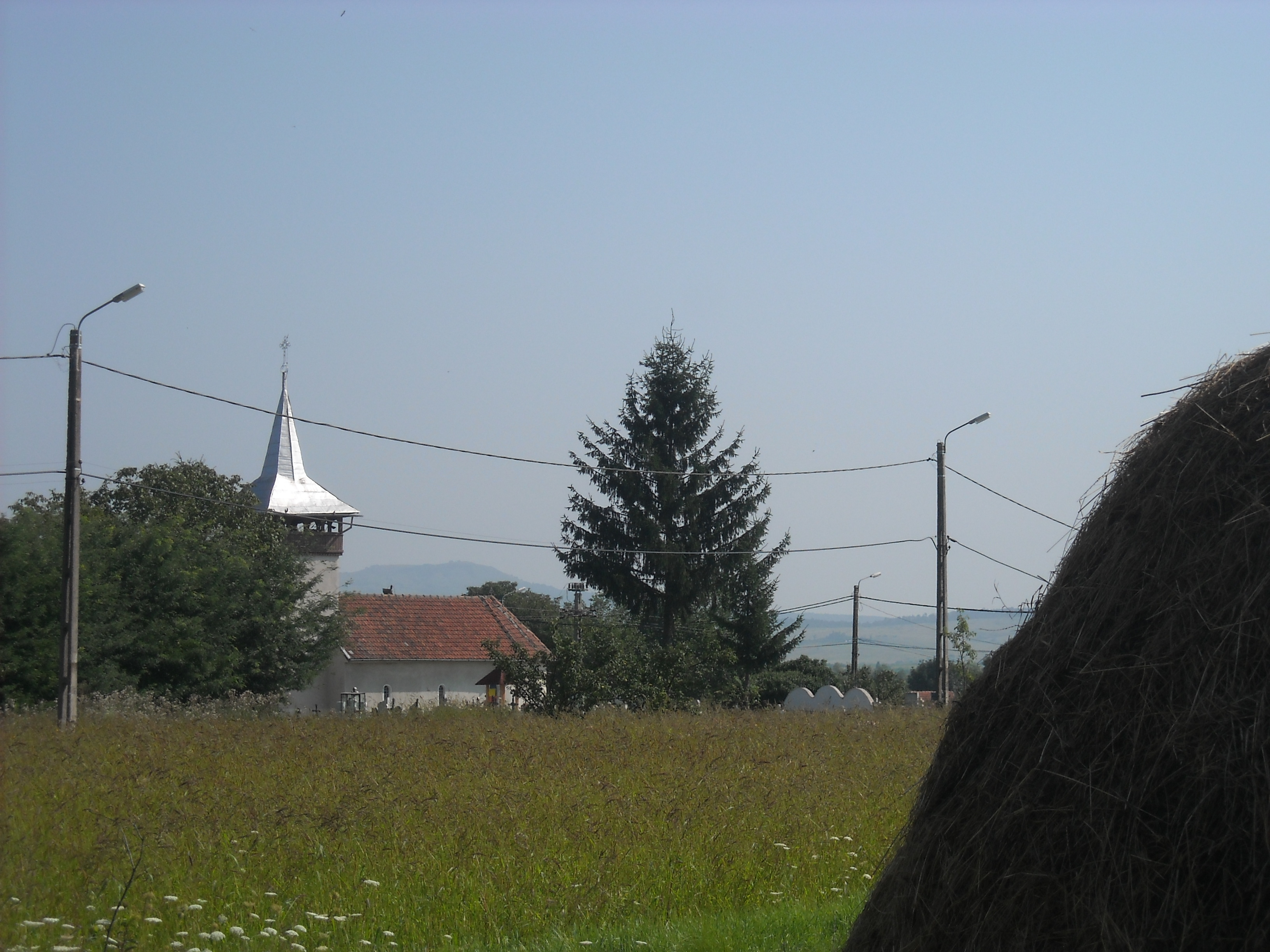 Orthodox church in Ruşi, Hunedoara County, Romania